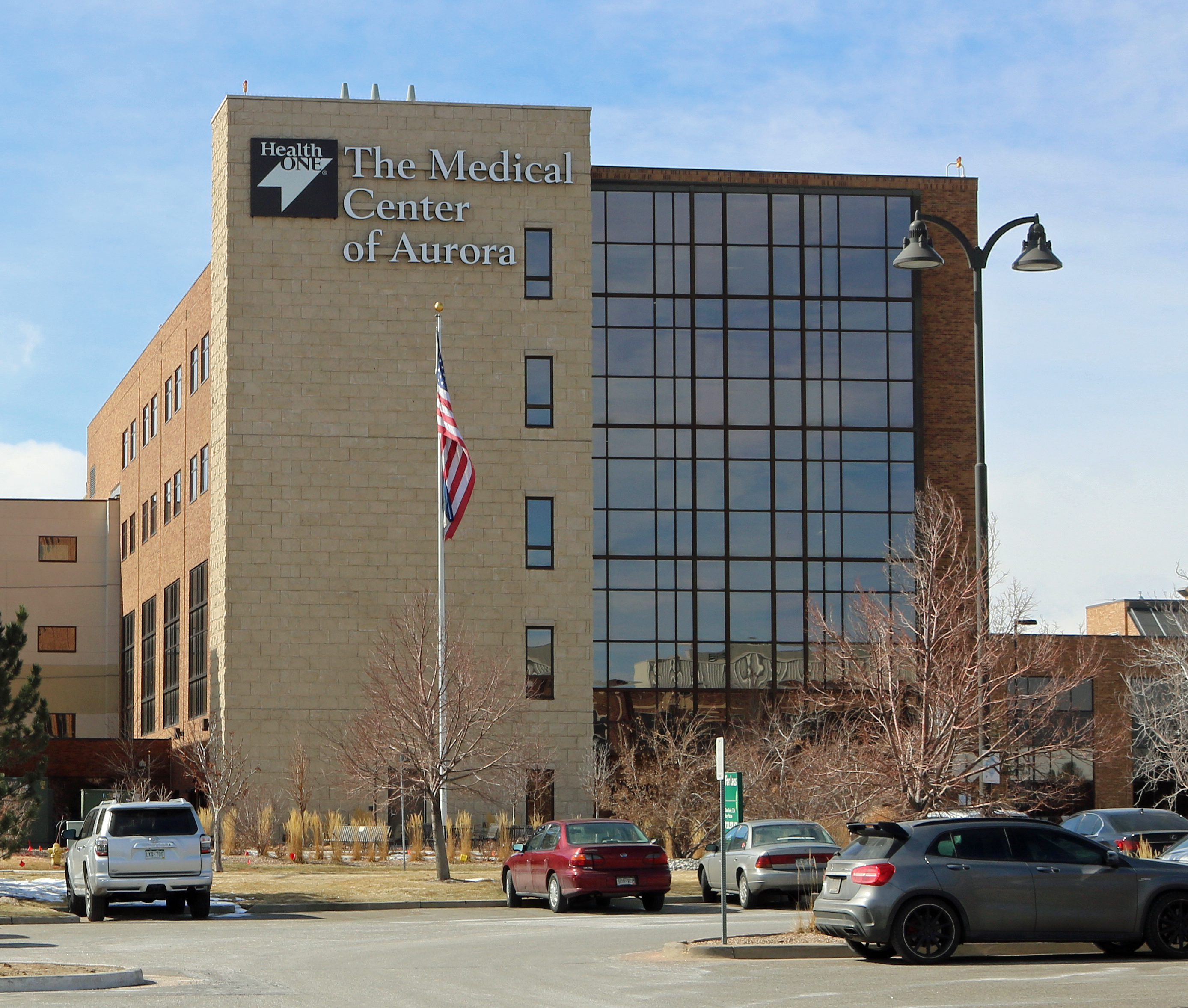 The Medical Center of Aurora, located at 1501 South Potomac Street in Aurora, Colorado.